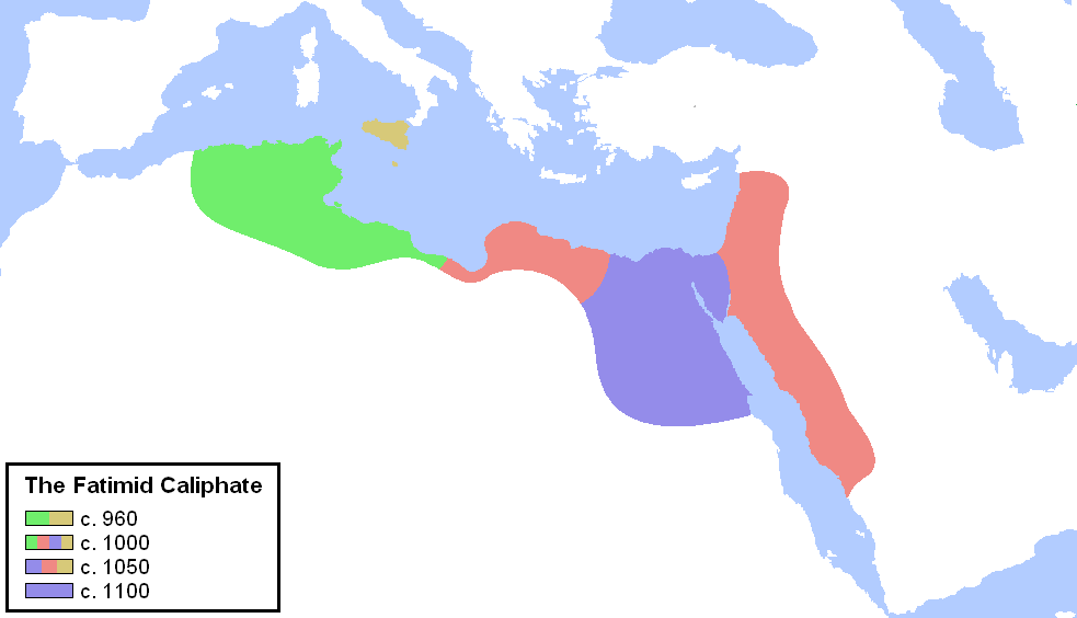 Map the Fatimid Empire (chronological)Map drawn acc. to: Euratlas' map of the Fatimid Empire c.1000 [1] Qantara-Med's map of the Mediterranean c.1000 [2] Territories in green represent Hammadid and Zirid realms, resp. indep. in 1018 and 1048 Ian Mladjov's map of the Eastern Mediterranean in 1096 [3] Qantara-Med's map of the Mediterranean c.1100 [4]